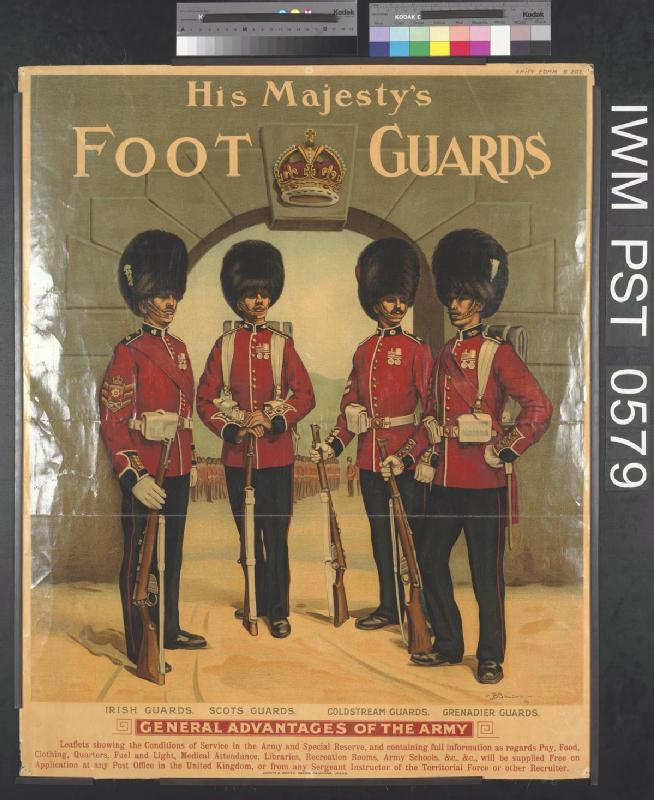 His Majesty's Foot Guards whole: the image occupies the majority, with the title integrated and positioned across the top. The text is separate and positioned across the bottom, in green and in red. image: four full-length depictions of Irish, Scots, Coldstream and Grenadier Guardsmen. They wear full ceremonial dress and stand in front of a stone archway. Through the arch other guardsmen can be seen drilling on a parade ground. text: ARMY FORM B 207. His Majesty's FOOT GUARDS JB BALDWIN. '09 IRISH GUARDS. SCOTS GUARDS. COLDSTREAM GUARDS. GRENADIER GUARDS. GENERAL ADVANTAGES OF THE ARMY Leaflets showing the Conditions of Service in the Army and Special Reserve, and containing full information as regards Pay, Food, Clothing, Quarters, Fuel and Light, Medical Attendance, Libraries, Recreation Rooms, Army Schools, etc., etc., will be supplied Free on Application at any Post Office in the United Kingdom, or from any Sergeant Instructor of the Territorial Force or other Recruiter. JOWETT AND SOWRY, COLOR PRINTERS, LEEDS.